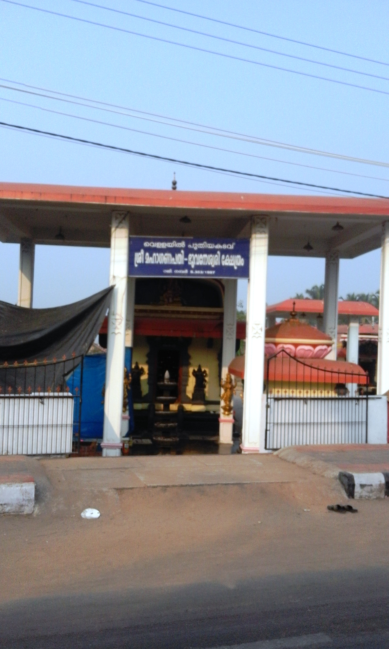 Kozhikode, Kerala province, India.